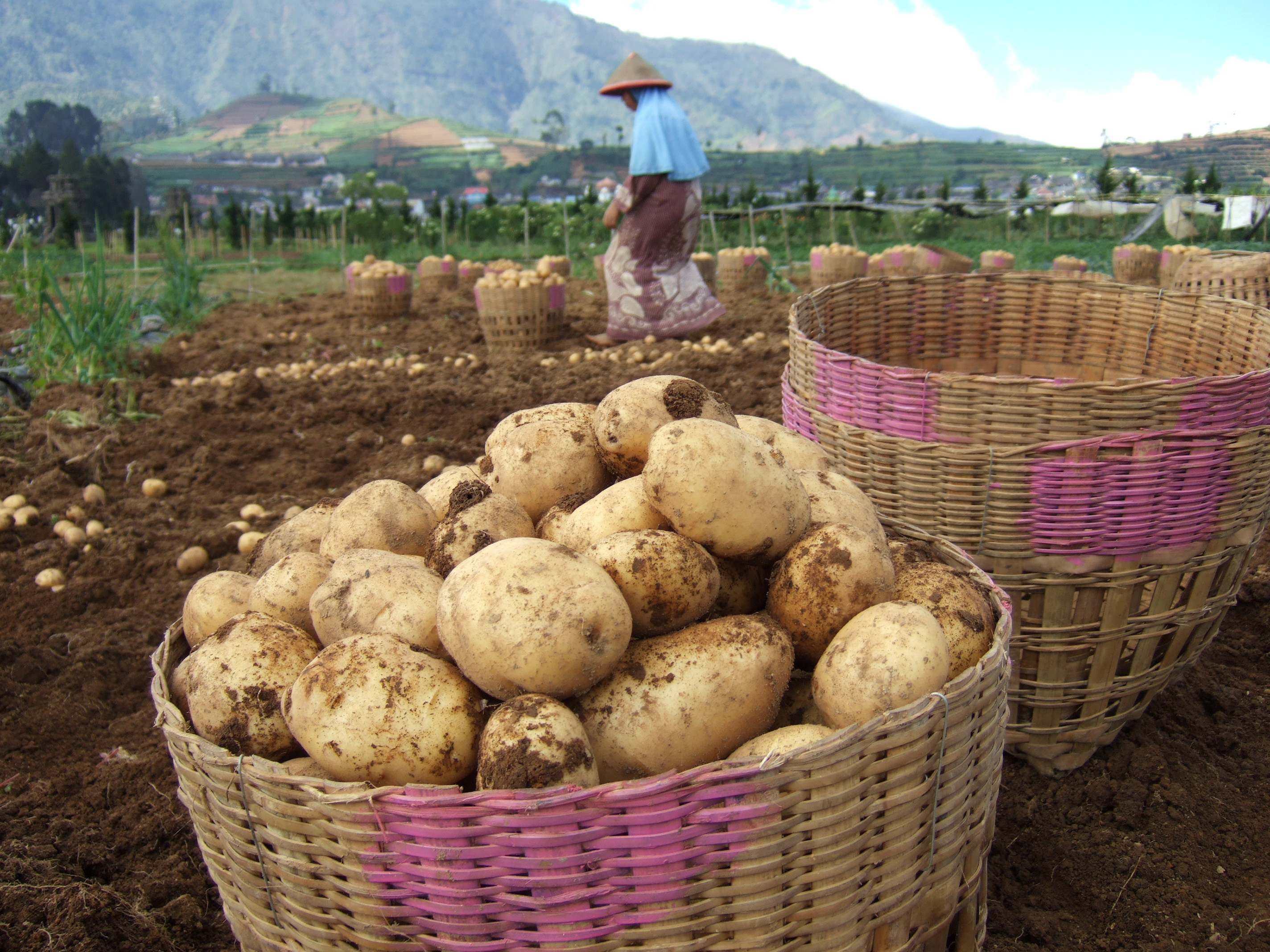 Potatoes grown in Dieng